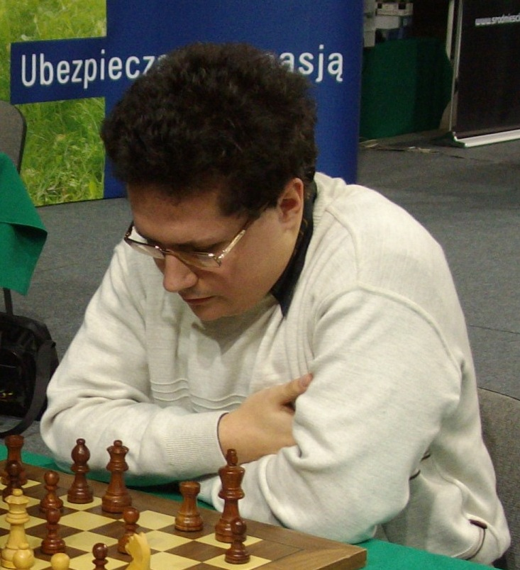 GM Yuri Drozdovskij, Ukraine, VIII Amplico AIG Life International Chess Tournament, Warsaw 2008